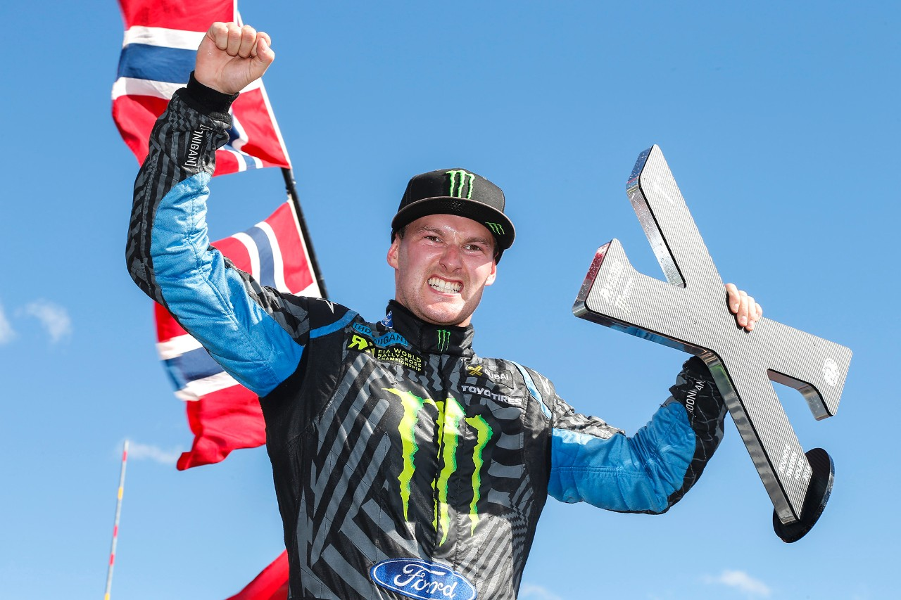 Andreas Bakkerud at Round 6 of the 2016 FIA World Rallycross Championship at Höljesbanan, Sweden.